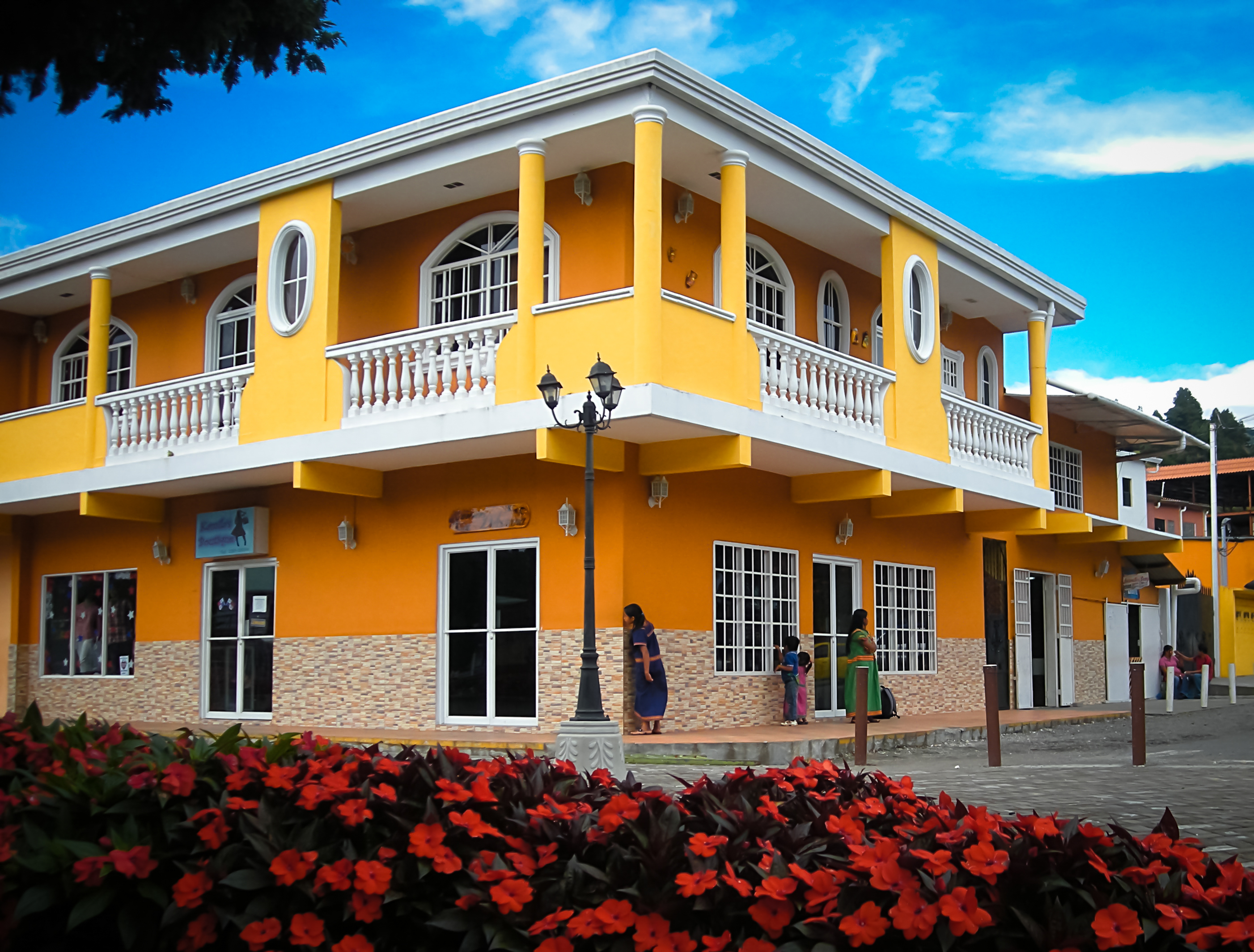 Building on the Square in Boquete, Panama, with young woman peaking around the corner